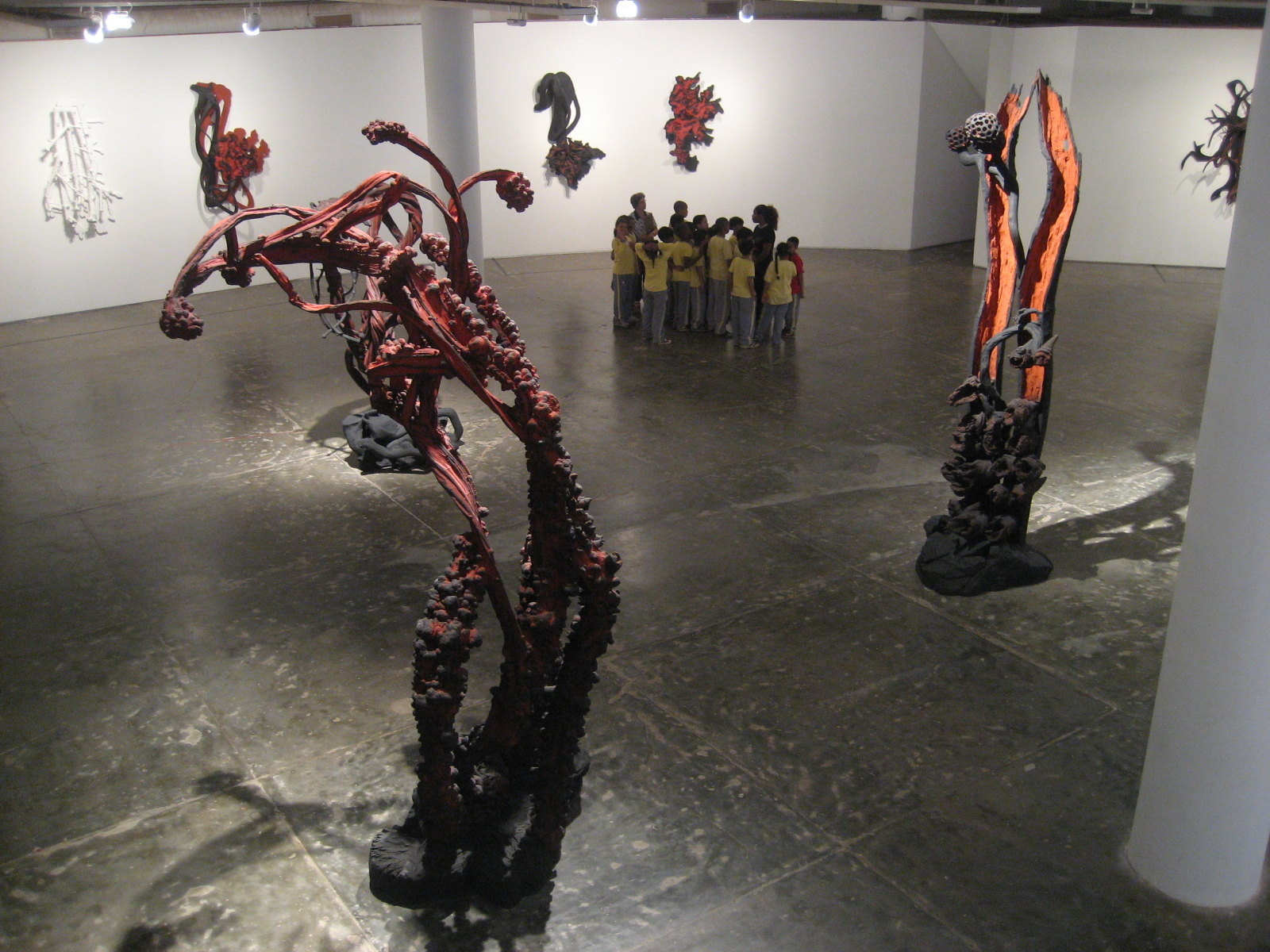 Works by Frans Krajcberg in the exhibition Natura, at Oca - Parque do Ibirapuera, São Paulo. Picture taken in November 27, 2008.